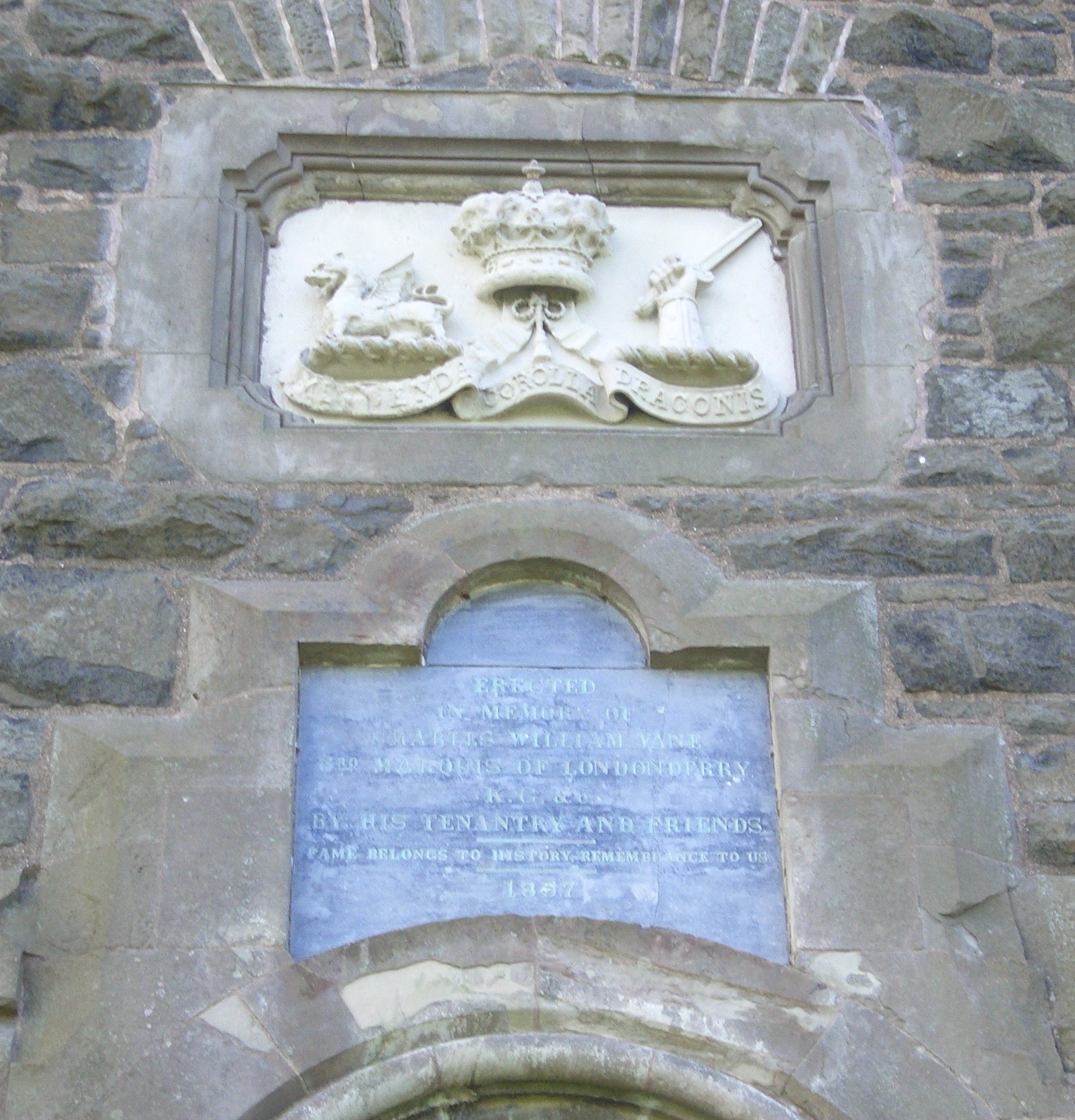 Scrabo Tower, Newtownards, County Down, Northern Ireland. Door lintel, plaque and coat of arms. Plaque enscription reads: "Erected in memory of Charles William Vane, 3rd Marquis of Londonderry, K.G. & c. By his tenants and friends. Fame belongs to history. Rememberance to us. 1857.". Coat of arms/motto reads: " Metuenda corolla draconis" (Latin: The dragon’s crest is to be feared = Stewart/Londonderry motto). (Taken with Casio Exilim EXS100 on Sunday 20th May 2007 at 13:00 - minor crop from original)